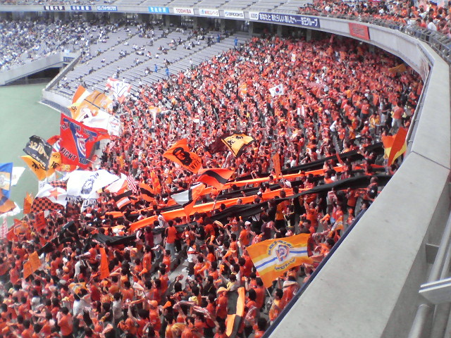 S-Pulse supporters away at FC Tokyo September 2007